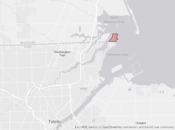 A map of Southeastern Michigan and Northwestern Ohio, including the city of Toledo, that highlights in red the "Lost Peninsula" area, an exclave of Michigan that shares its only land border with Ohio after the events of the 1835 Toledo War